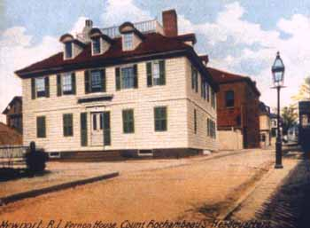 William Vernon's home, built 1773. The home served as Rochambeau's headquarters during the American revolution. During the war, Rochambeau met with General Lafayette and General Washington to plan the Yorktown Campaign. Source is from this Yale site (direct link to picture). No source is listed there, but it's safe to say however that the artist died before 1905, and therefore this artwork is in the public domain. --Bash 22:58, 23 September 2005 (UTC)